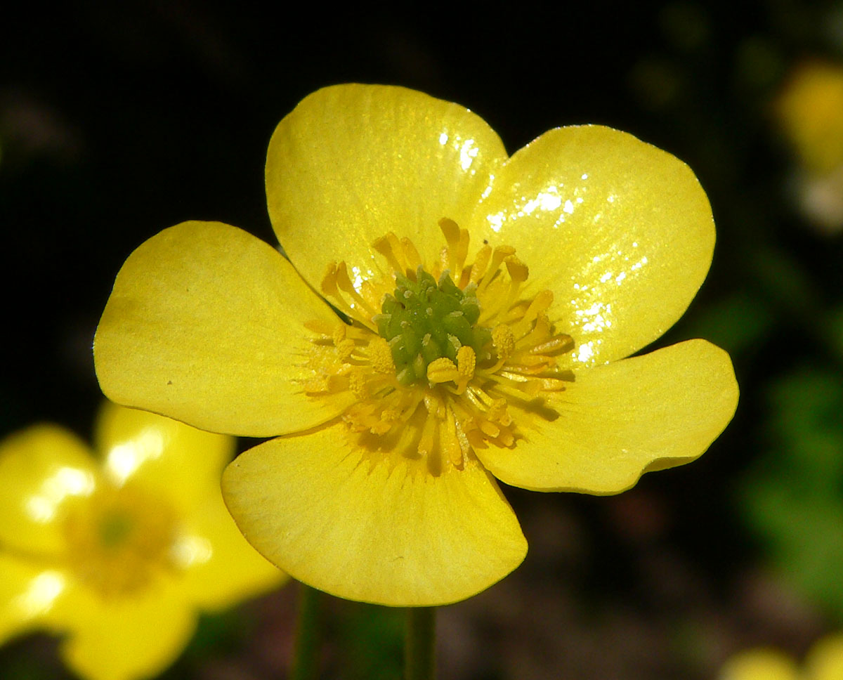 Ranunculus japonicus at the University of California Botanical Garden, Berkeley, California